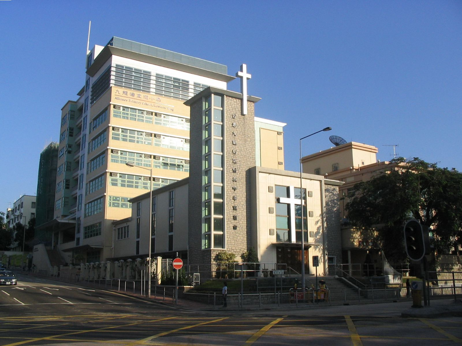 香港九龍塘基督教中華宣道會 Kowloon Tong Church of The Chinese Christian and Missionary Alliance